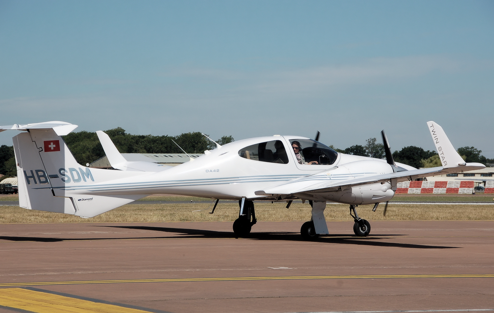 Diamond DA42 Twin Star (HB-SDM) taxiing for takeoff at the 2010 Royal International Air Tattoo, Fairford, Gloucestershire, England.